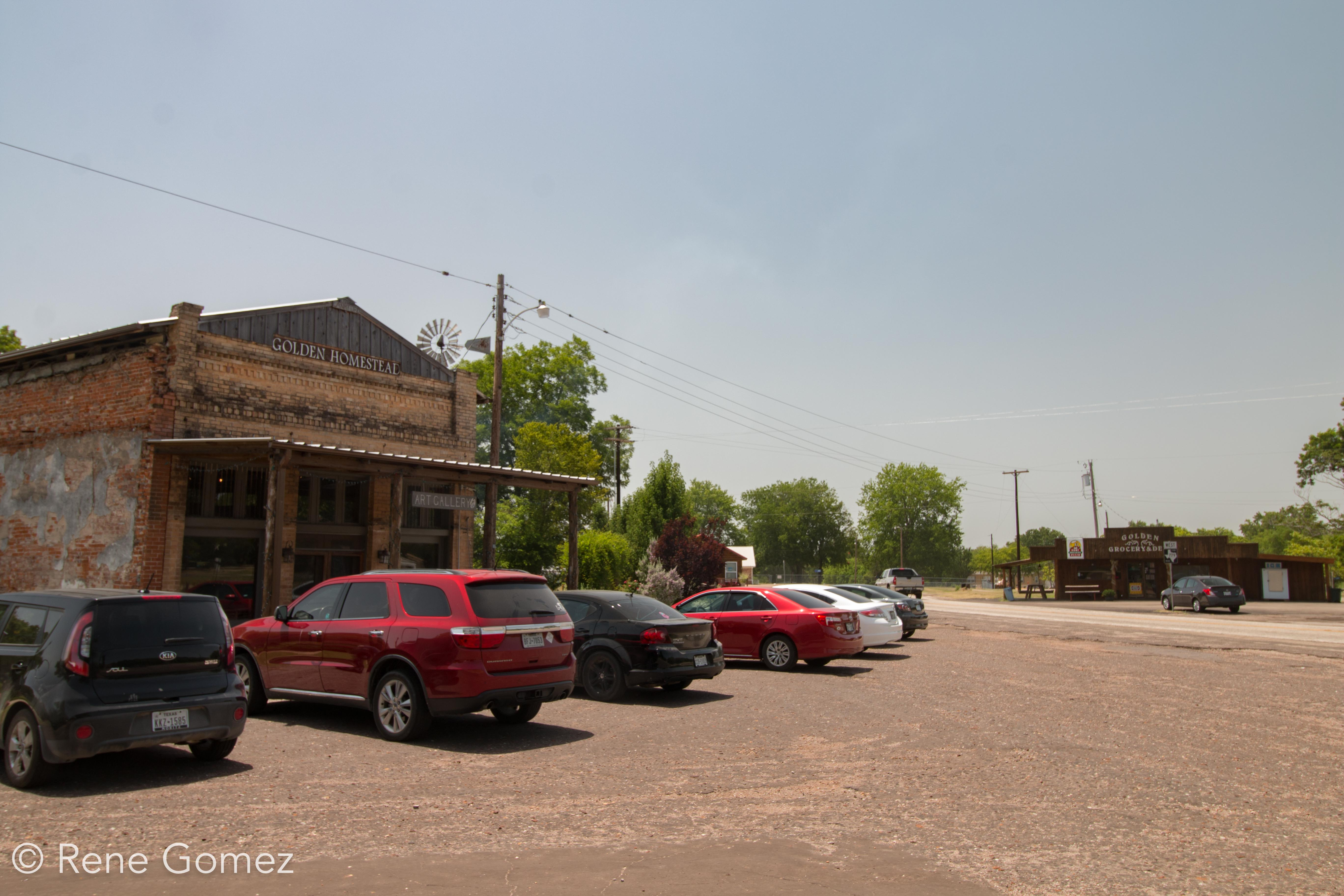 The town of Golden, Texas